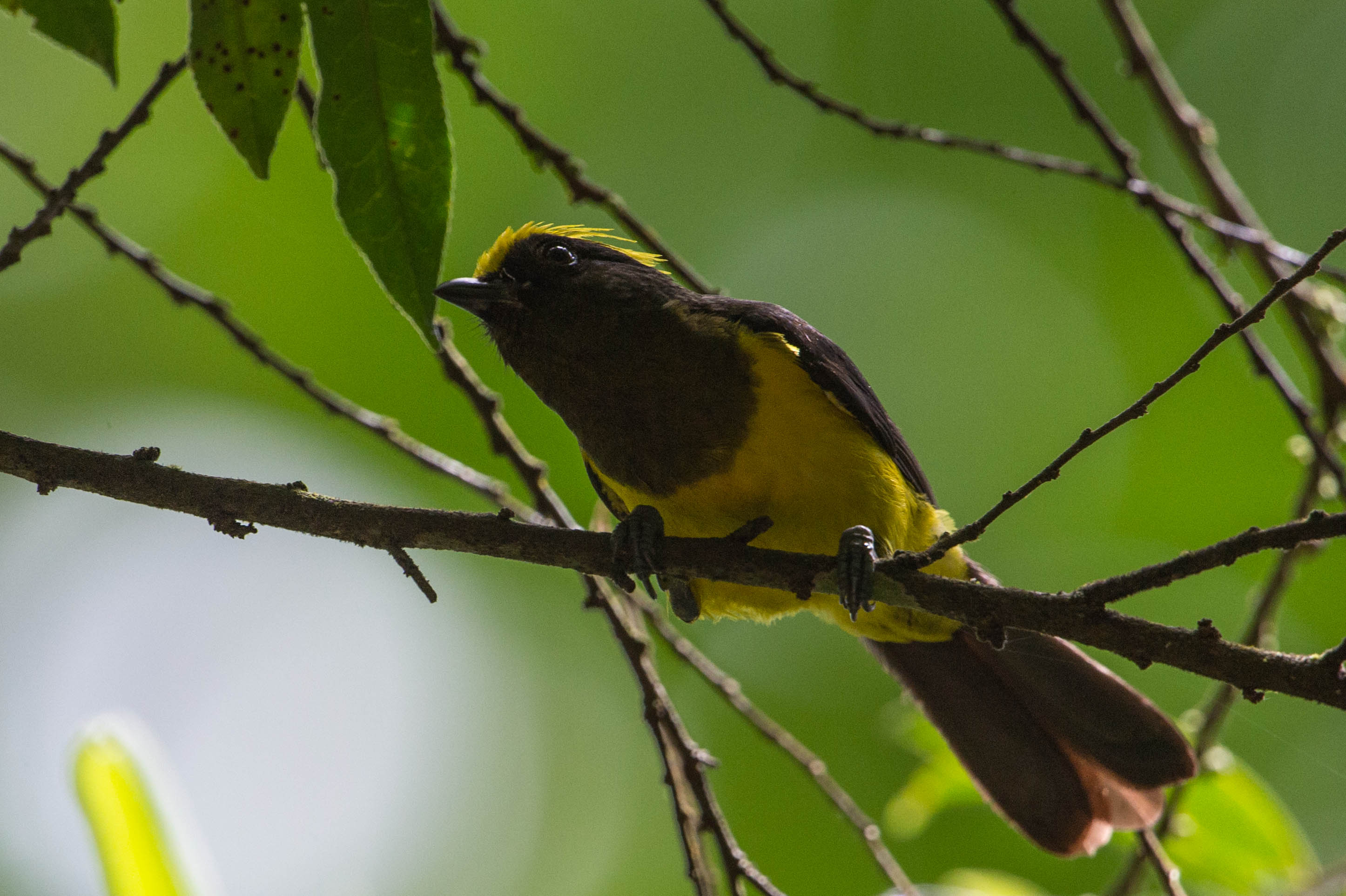 Sultan Tit (Melanochlora sultanea) at Kaeng Krachan, Phetchaburi, Thailand